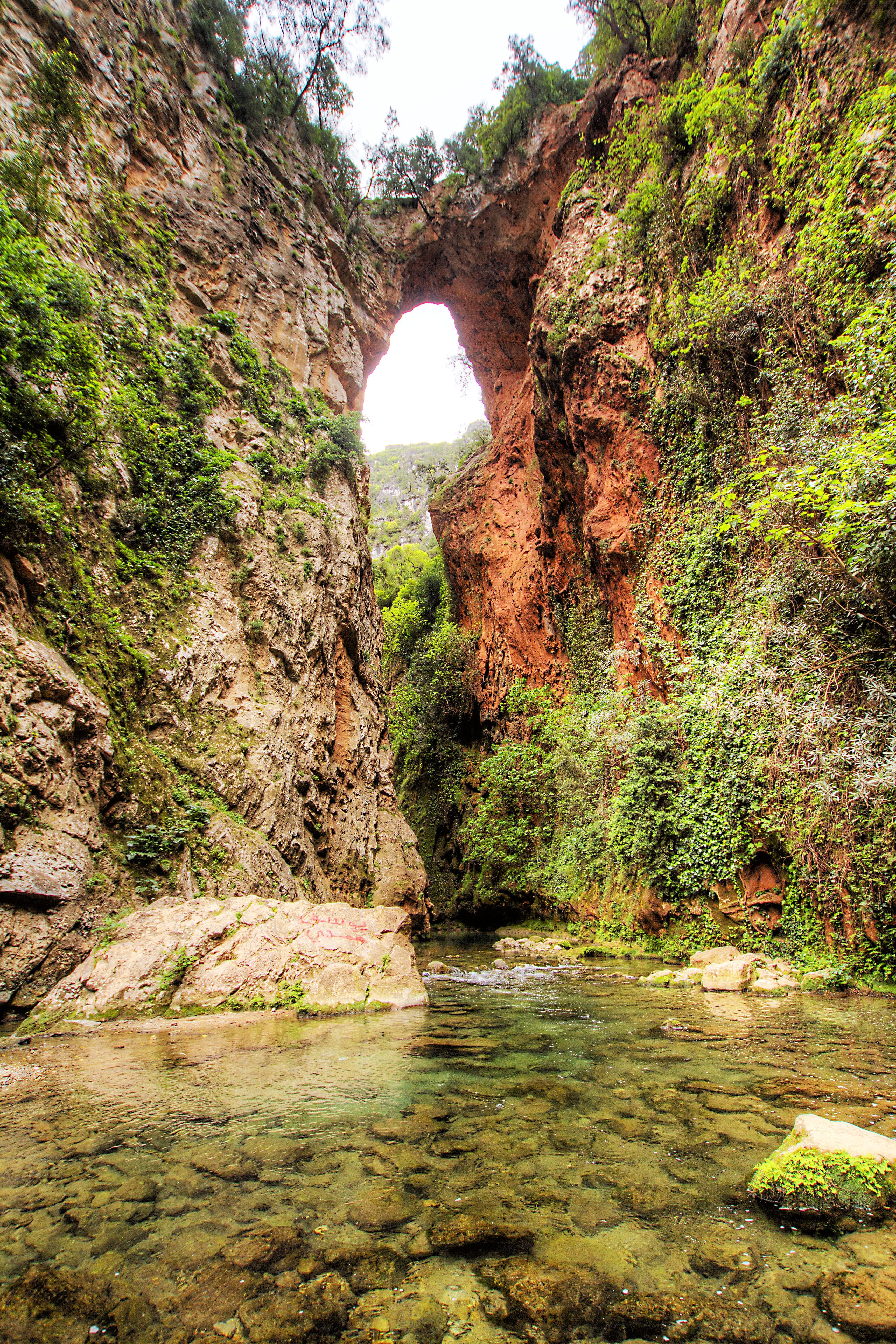 Natural bridge at Akchour, Morocco